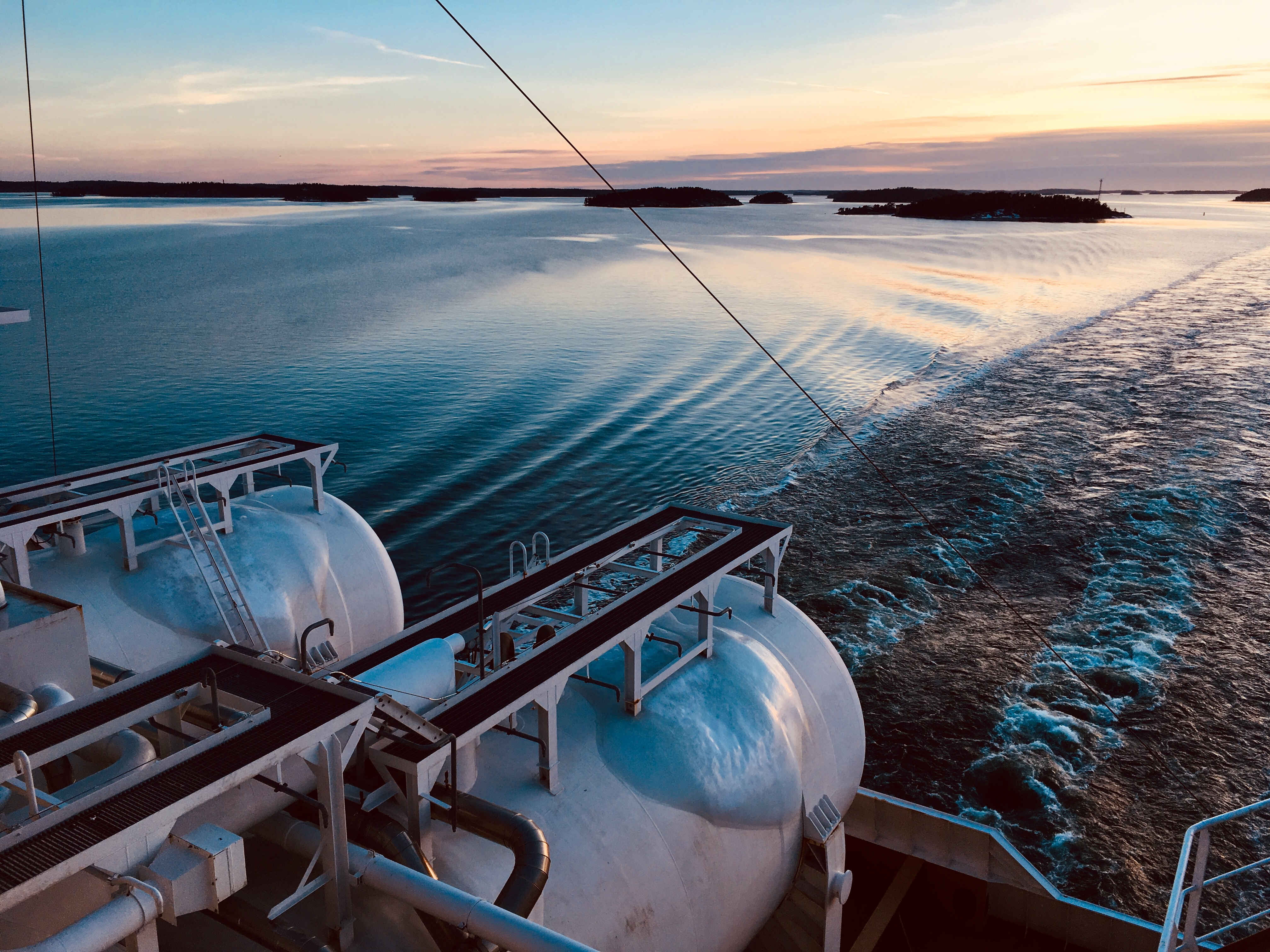 LNG tanks of cruiseferry MS Viking Grace owned and operated by Finnish shipping company Viking Line Abp. The LNG tanks are located outdoors on the rear deck. Viking Grace is the world's first large passenger ship that uses liquefied natural gas (LNG) as its fuel.